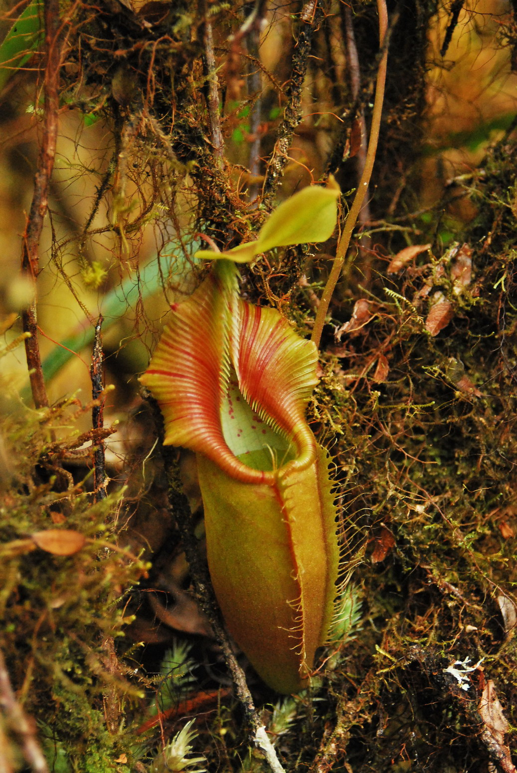 Nepenthes ovata, North Sumatra